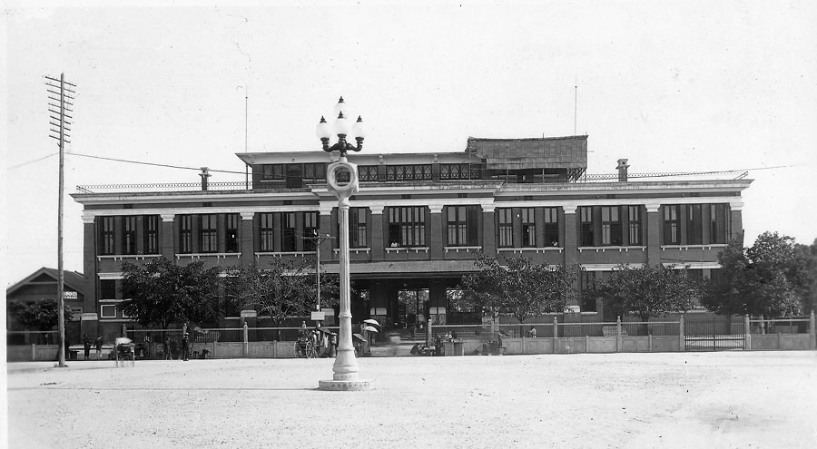 Canton (Tai Sha Tou) Railway Station in 1924.